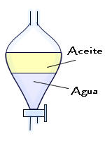 Separating Funnel in spanish